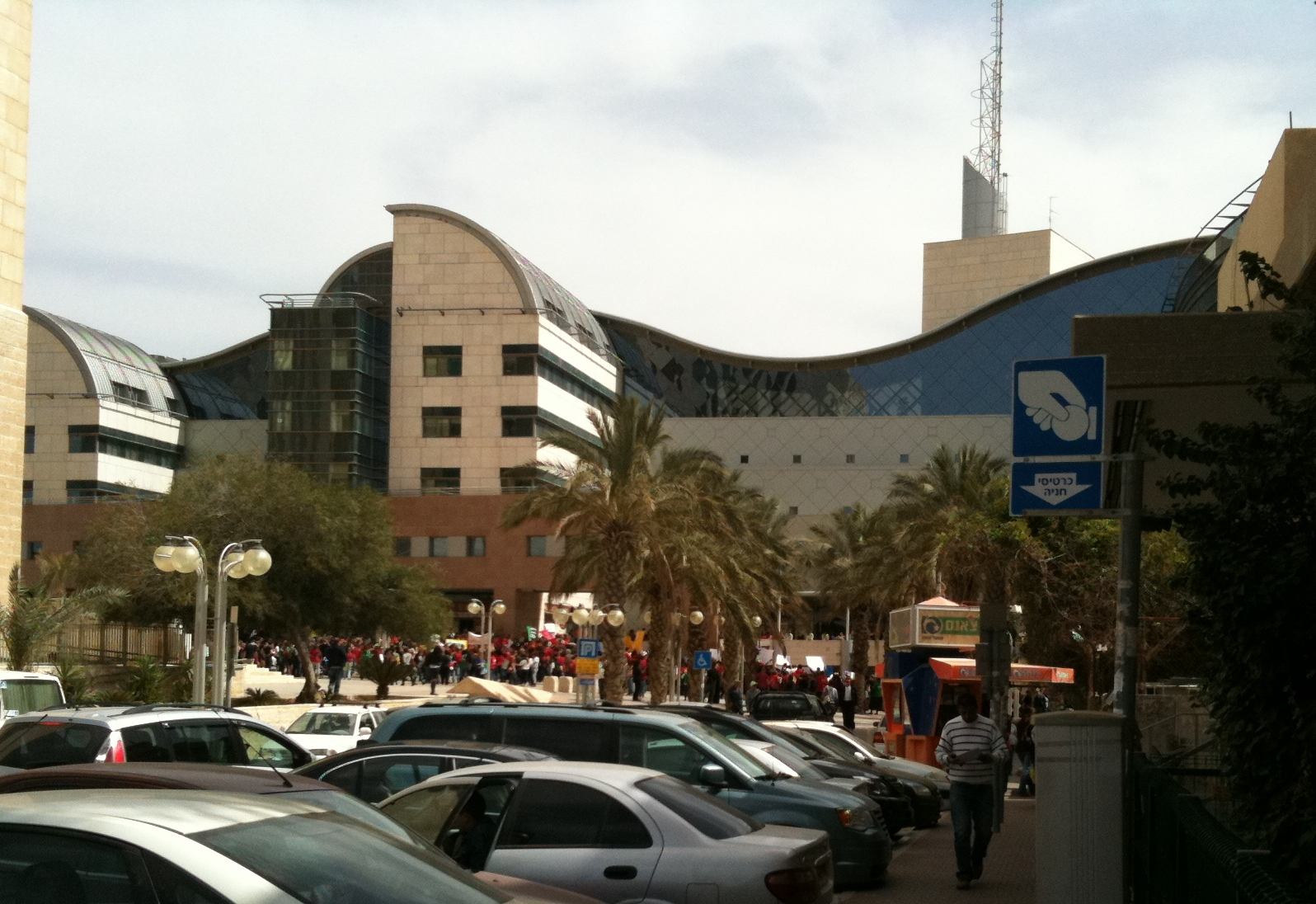 Gov Town Beersheba